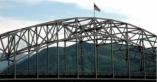 The George Sellars Bridge, Wenatchee, Washington, USA.